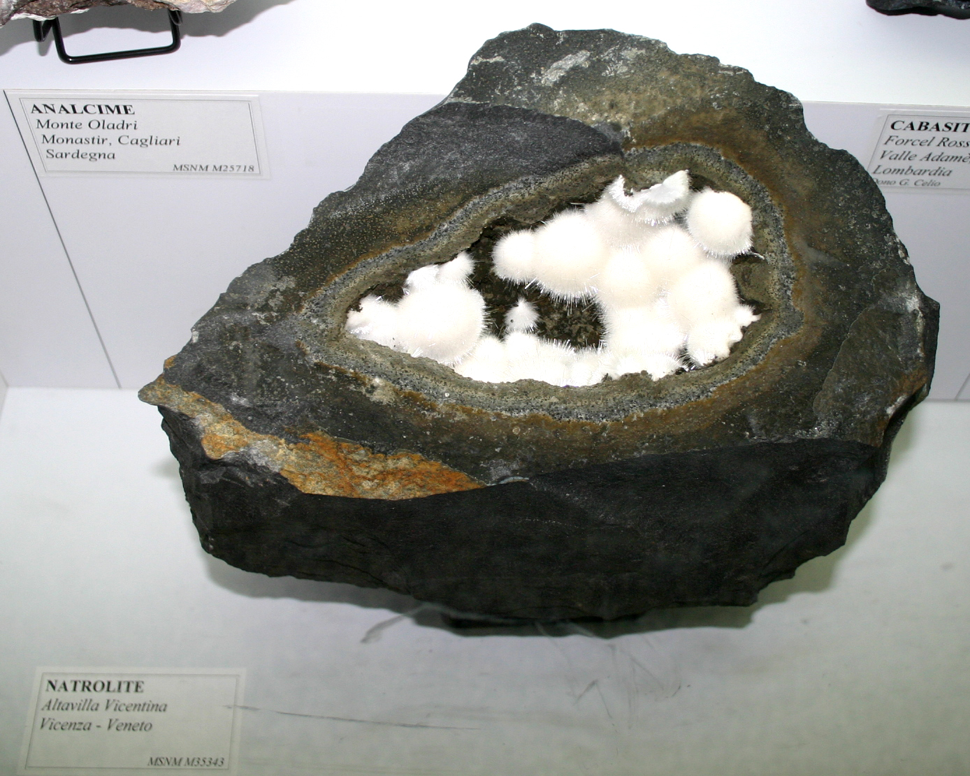 The National history museum in Milan, Italy. Natrolite crystals. Picture by Giovanni Dall'Orto, April 22 2007.